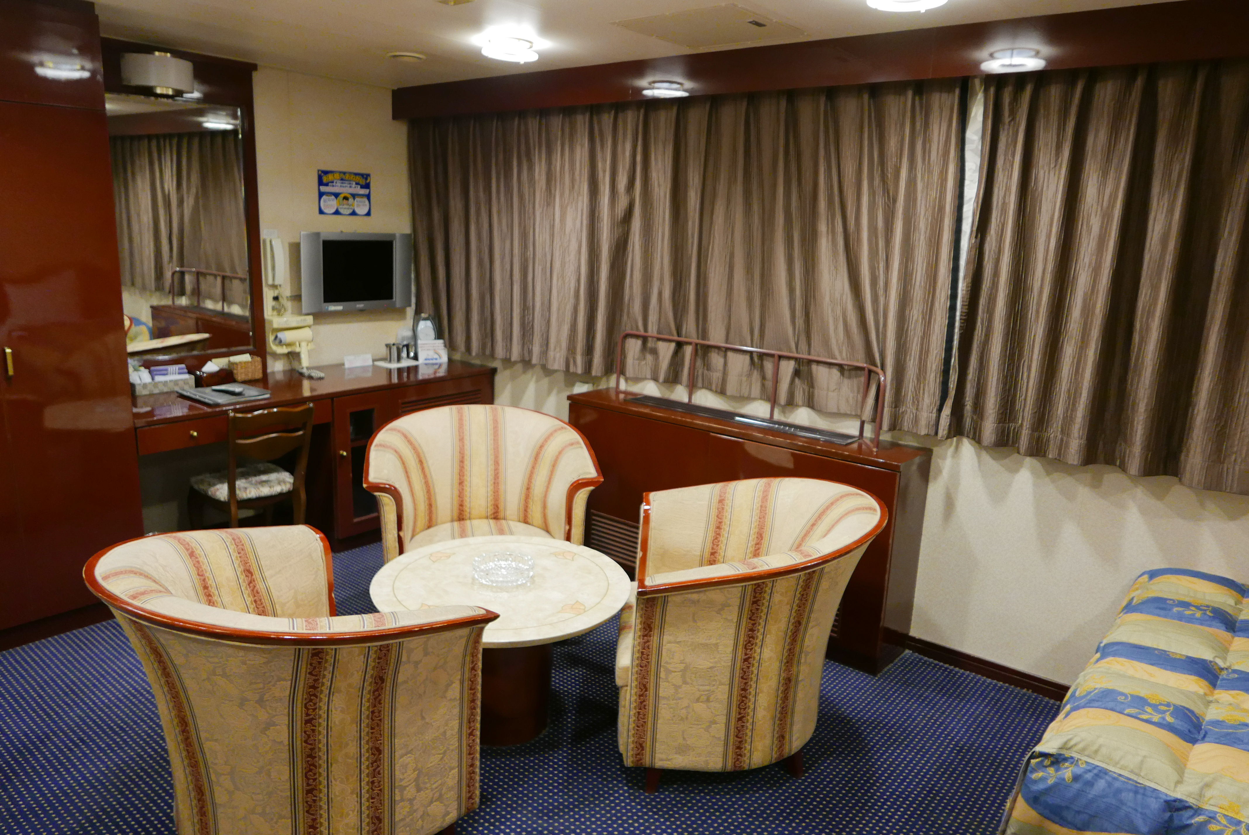 Interior of the Ferry Fukuoka 2 Royal Room